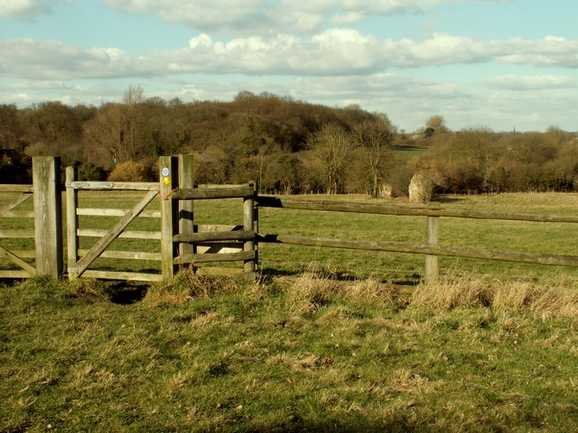 Tilty Abbey remains, Essex. Just beyond the kissing gate and just right of centre, you can see the scanty remains of Tilty Abbey; a 12th century Cistercian monastery.